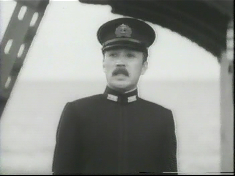 Denjirō Ōkōchi from "Hawai Mare oki kaisen (The War at Sea from Hawaii to Malay)".